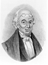 Portrait of Senator Elisha Mathewson of Rhode Island